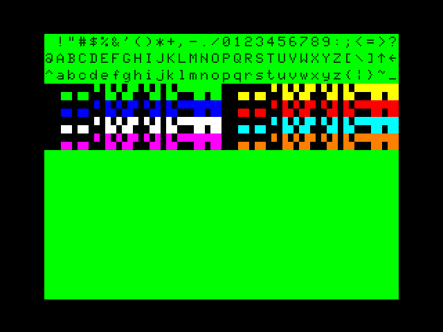 Screenshot of a CoCo 2 emulator (coco2b, MESS) showing all available upper and lowercase alphanumeric characters and semigraphics characters. Screenshot of a CoCo 2 emulator (coco2b, MESS) showing all available upper and lowercase alphanumeric characters and semigraphics characters.